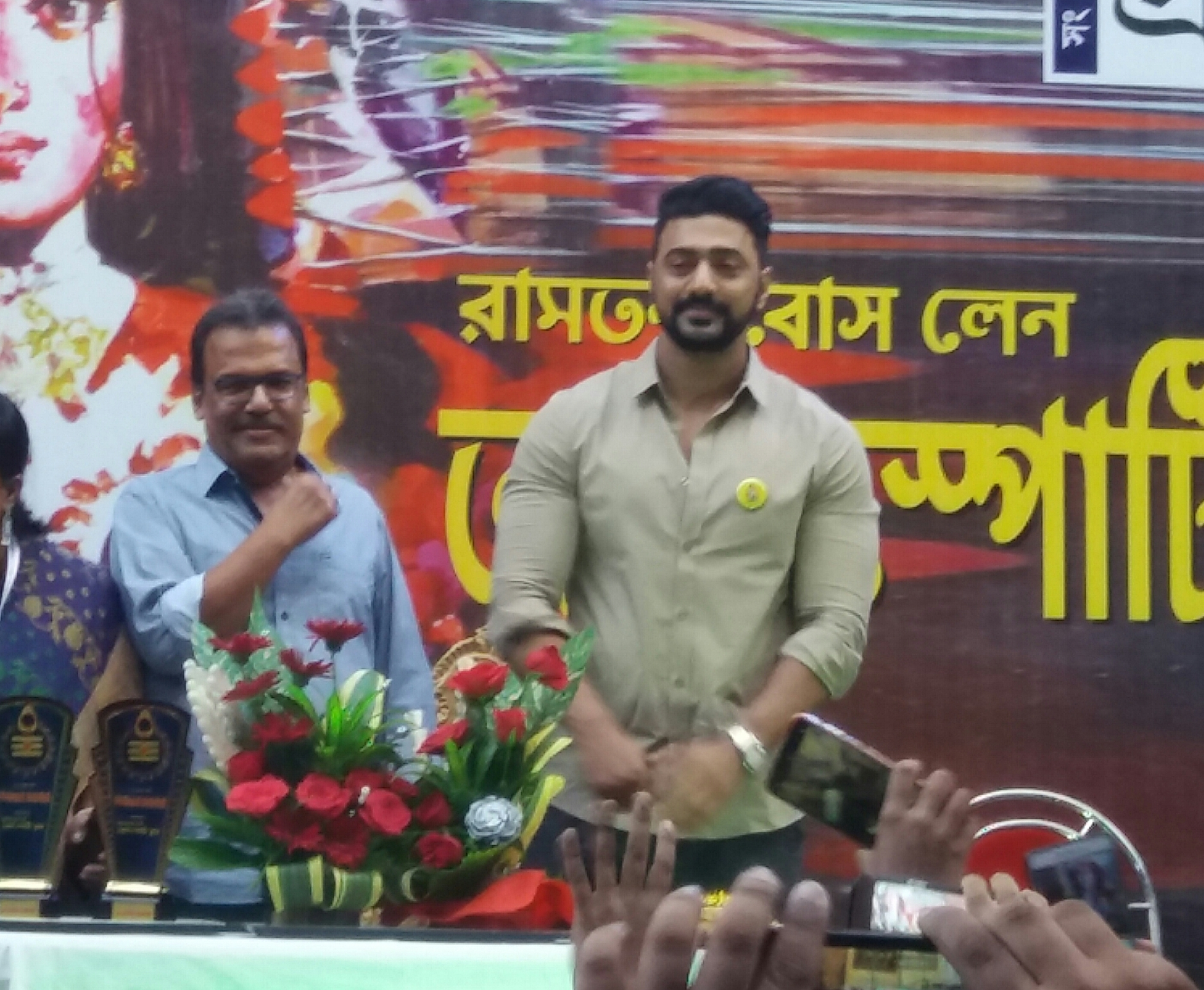 Dev Bangla film actor.